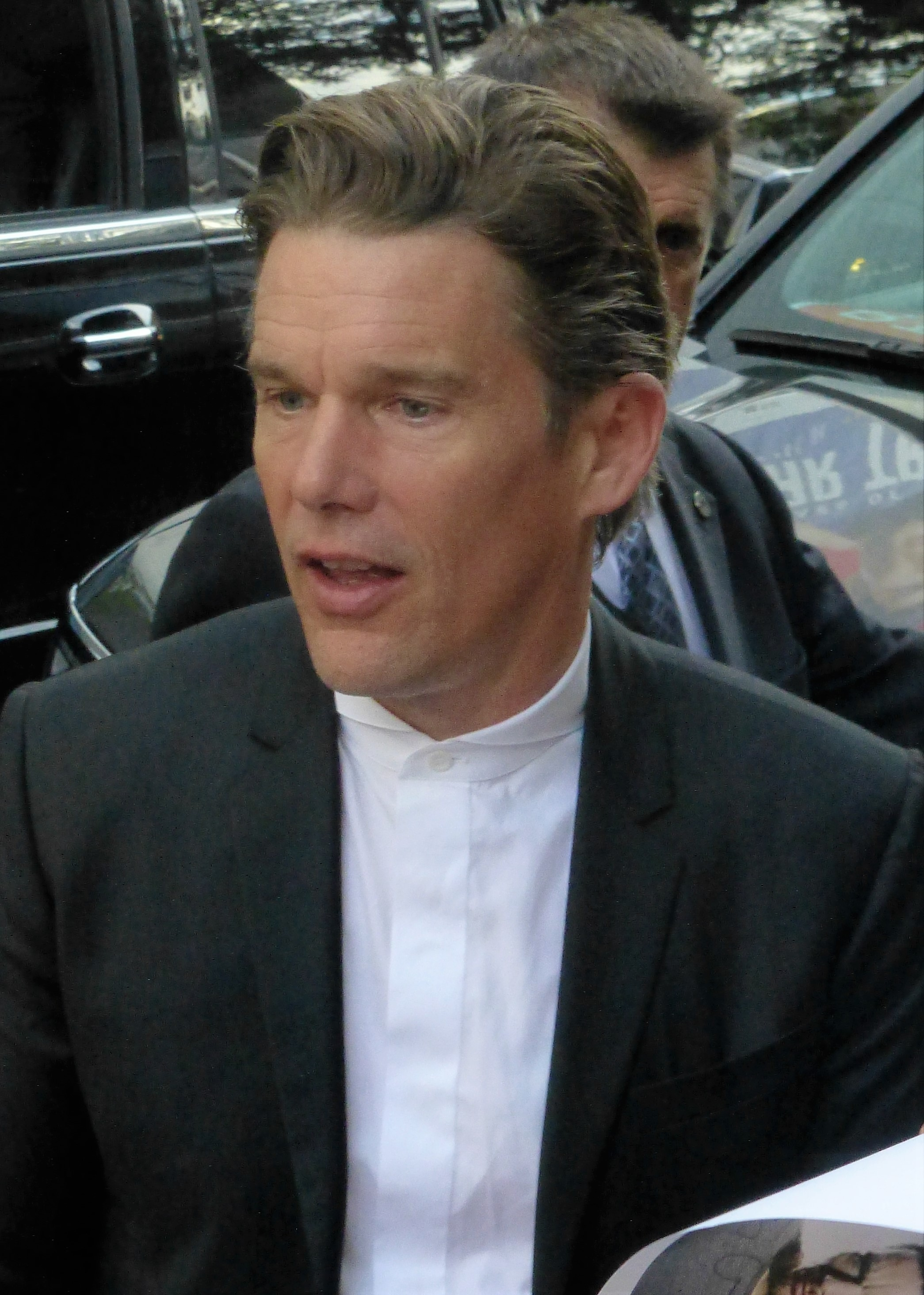 Ethan Hawke at the press conference of The Magnificent Seven, 2016 Toronto Film Festival